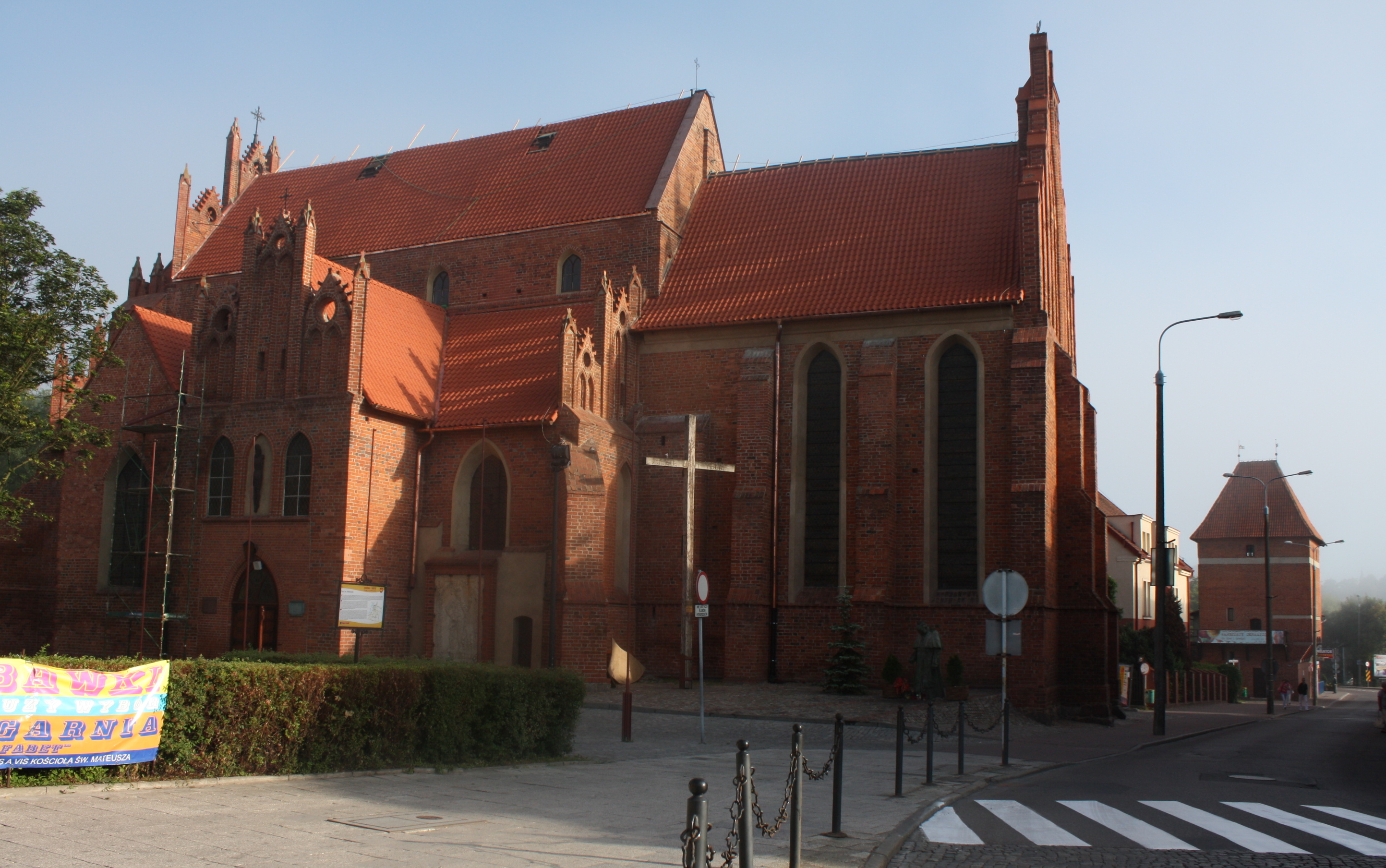 Starogard Gdański, St. Matthew Church